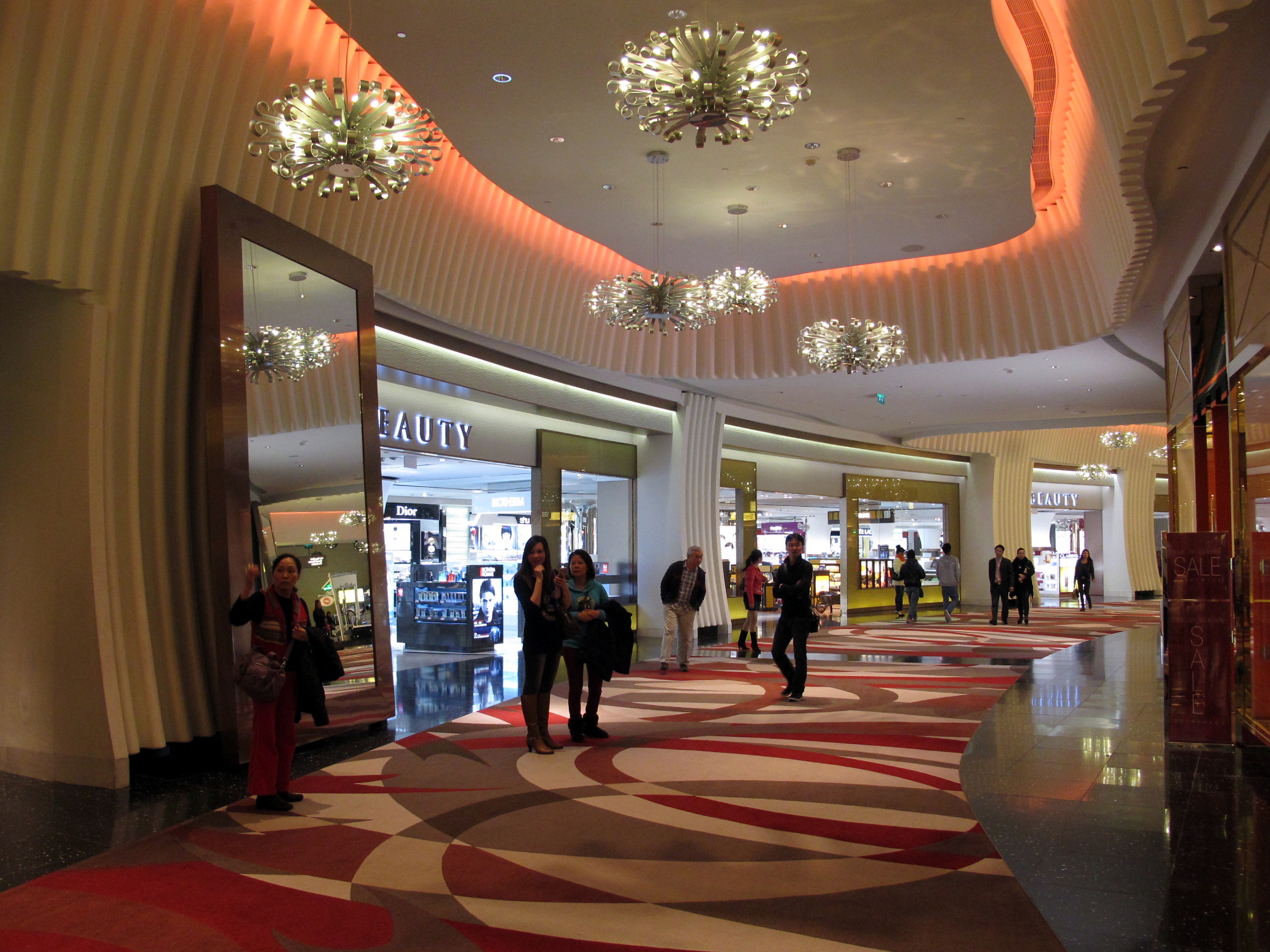 The City of Dreams The Boulevard